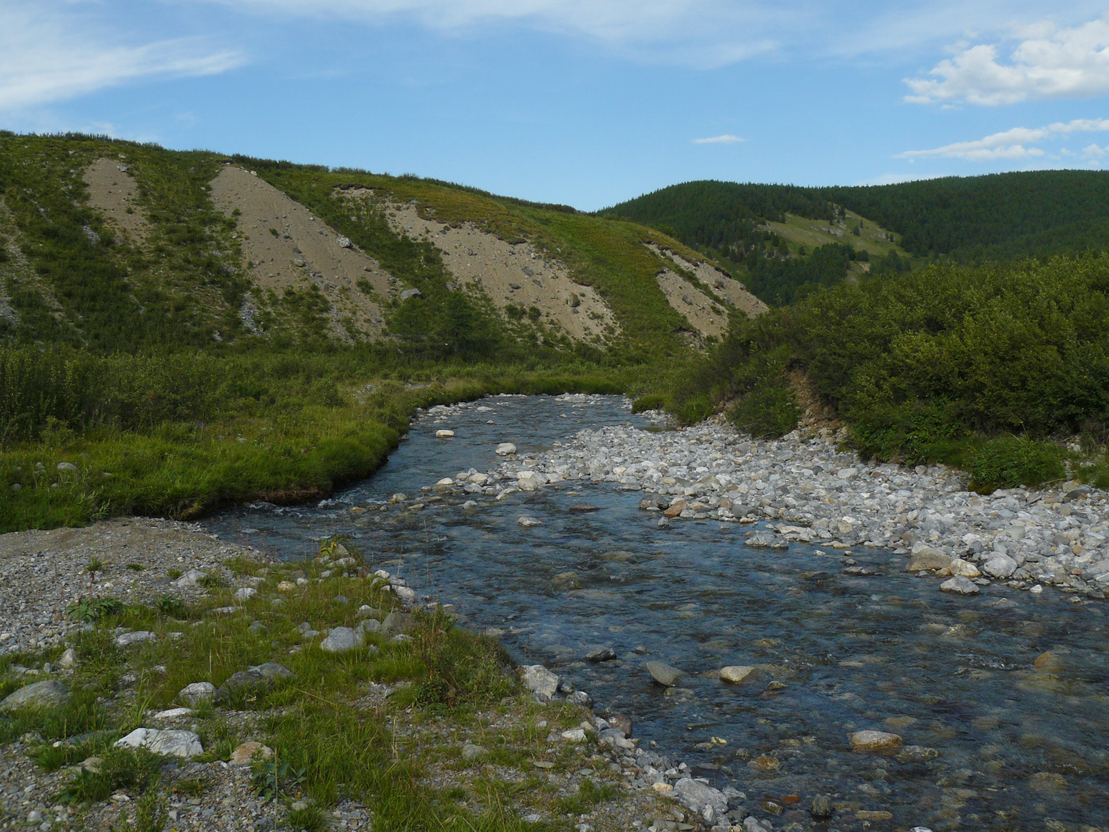 Eskongo river, Kadrin basin, Central Altai.